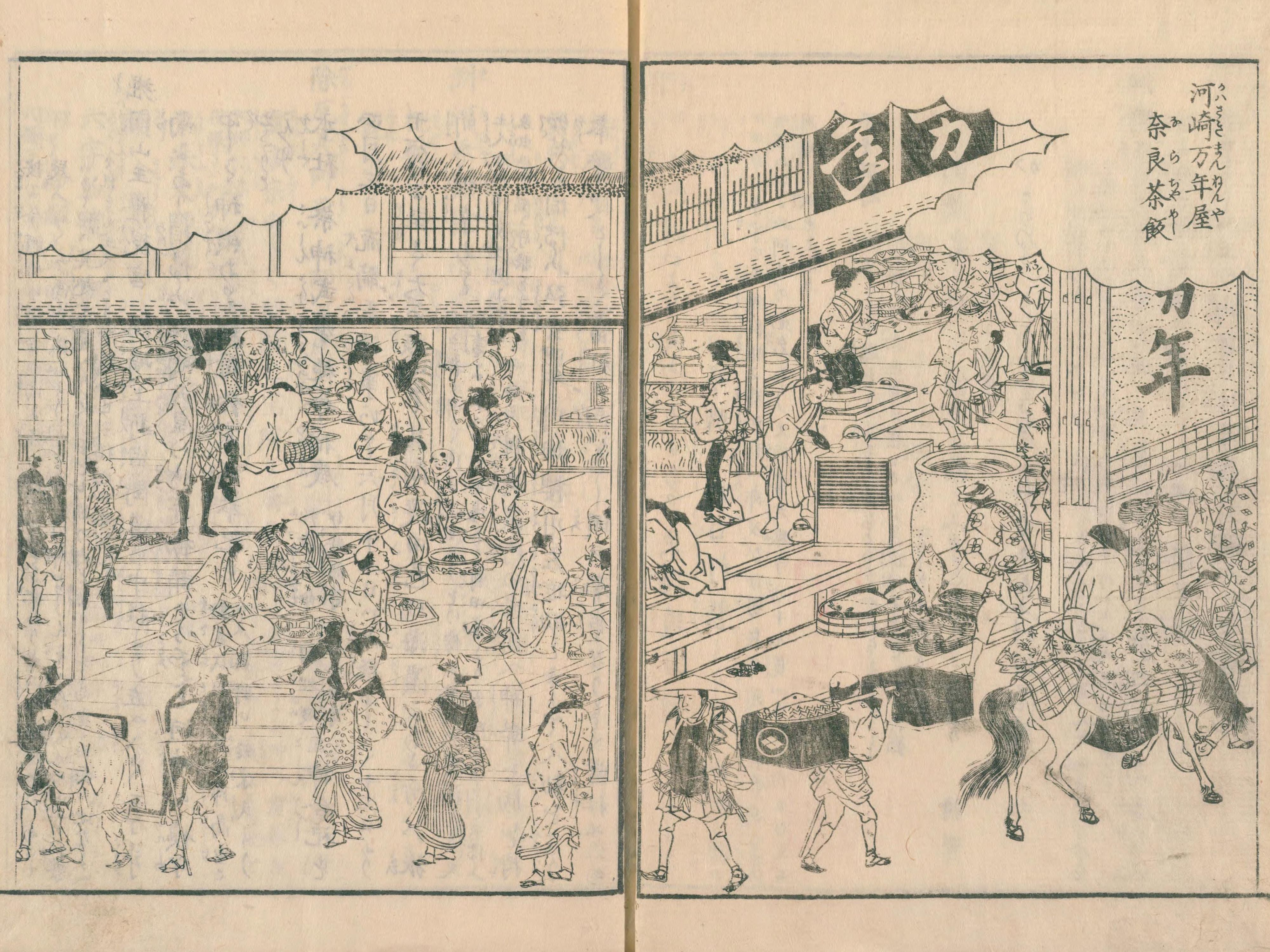 Nara-chameshi (tea rice) at Man'nen-ya, Kawasaki in Edo Meisho Zue vol. 2 (book 5)